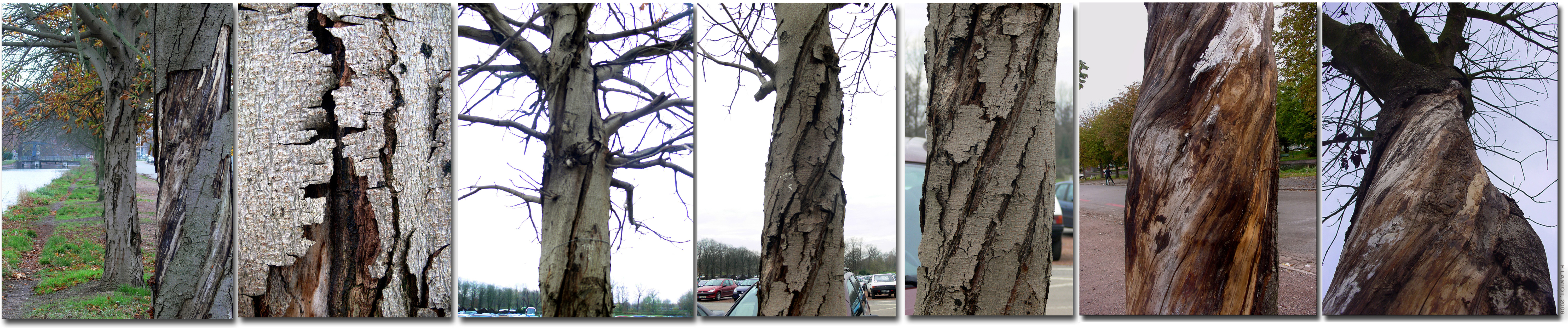 horse chestnust killed by a bacteria (Pseudomonas syringae perheaps with differents pathovars)